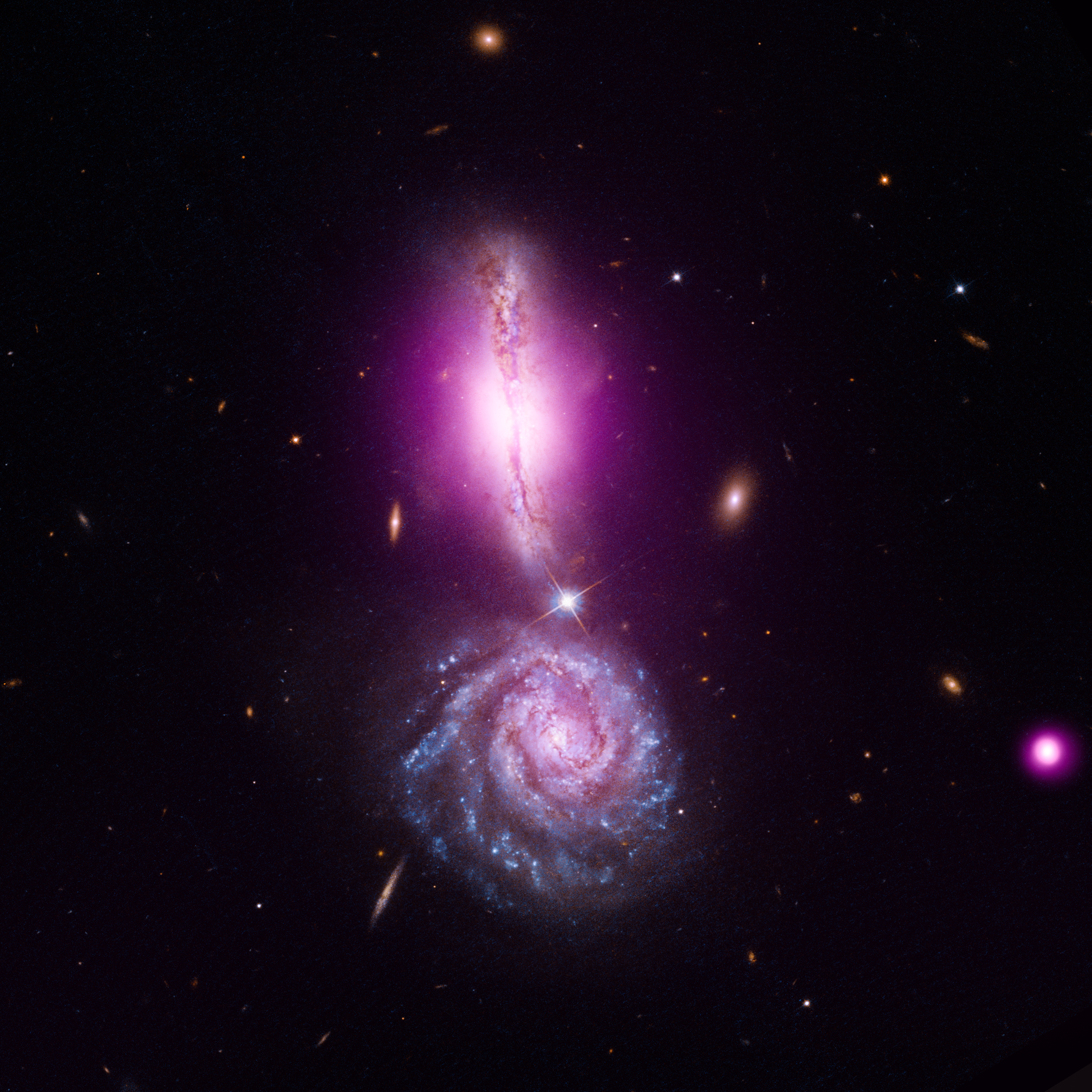 Description: This composite image of VV 340 contains X-ray data from Chandra (purple) and optical data from Hubble (red, green, blue). The two galaxies shown here are in the early stage of an interaction that will eventually lead to them merging in millions of years. The Chandra data shows that the northern galaxy contains a rapidly growing supermassive black hole that is heavily obscured by dust and gas. Data from other wavelengths shows that the two interacting galaxies are evolving at different rates. Creator/Photographer: Chandra X-ray Observatory NASA's Chandra X-ray Observatory, which was launched and deployed by Space Shuttle Columbia on July 23, 1999, is the most sophisticated X-ray observatory built to date. The mirrors on Chandra are the largest, most precisely shaped and aligned, and smoothest mirrors ever constructed. Chandra is helping scientists better understand the hot, turbulent regions of space and answer fundamental questions about origin, evolution, and destiny of the Universe. The images Chandra makes are twenty-five times sharper than the best previous X-ray telescope. NASA's Marshall Space Flight Center in Huntsville, Ala., manages the Chandra program for NASA's Science Mission Directorate in Washington. The Smithsonian Astrophysical Observatory controls Chandra science and flight operations from the Chandra X-ray Center in Cambridge, Massachusetts. Medium: Chandra telescope x-ray Date: 2011 Persistent URL: Repository: Smithsonian Astrophysical Observatory Gift line: X-ray: NASA/CXC/IfA/D.Sanders et al; Optical NASA/STScI/NRAO/A.Evans et al